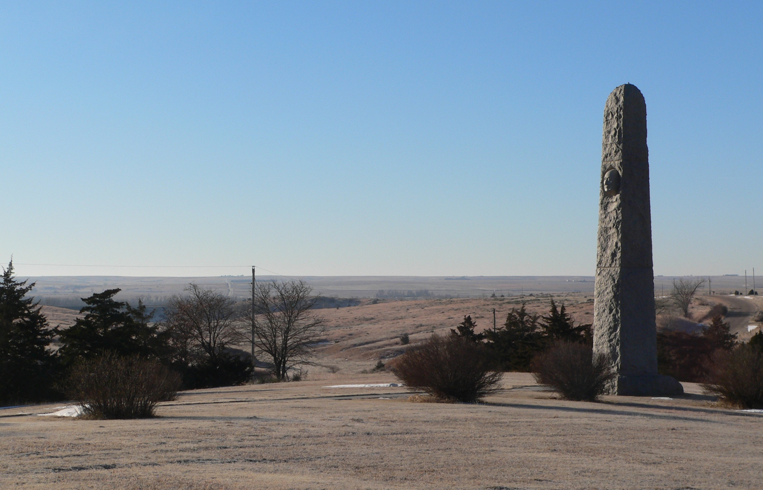 Massacre Canyon monument, on south side of U.S. Highway 34 northeast of Trenton, Nebraska; seen from the northeast. According a nearby historical marker, the monument was built in 1930. The canyon runs generally southward to the Republican River; the river itself is not visible, but the distant horizon in the picture is beyond it.